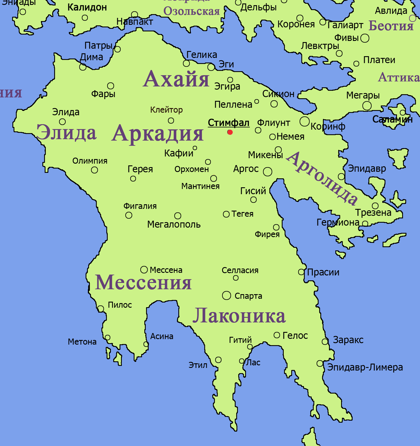 Stymphalos